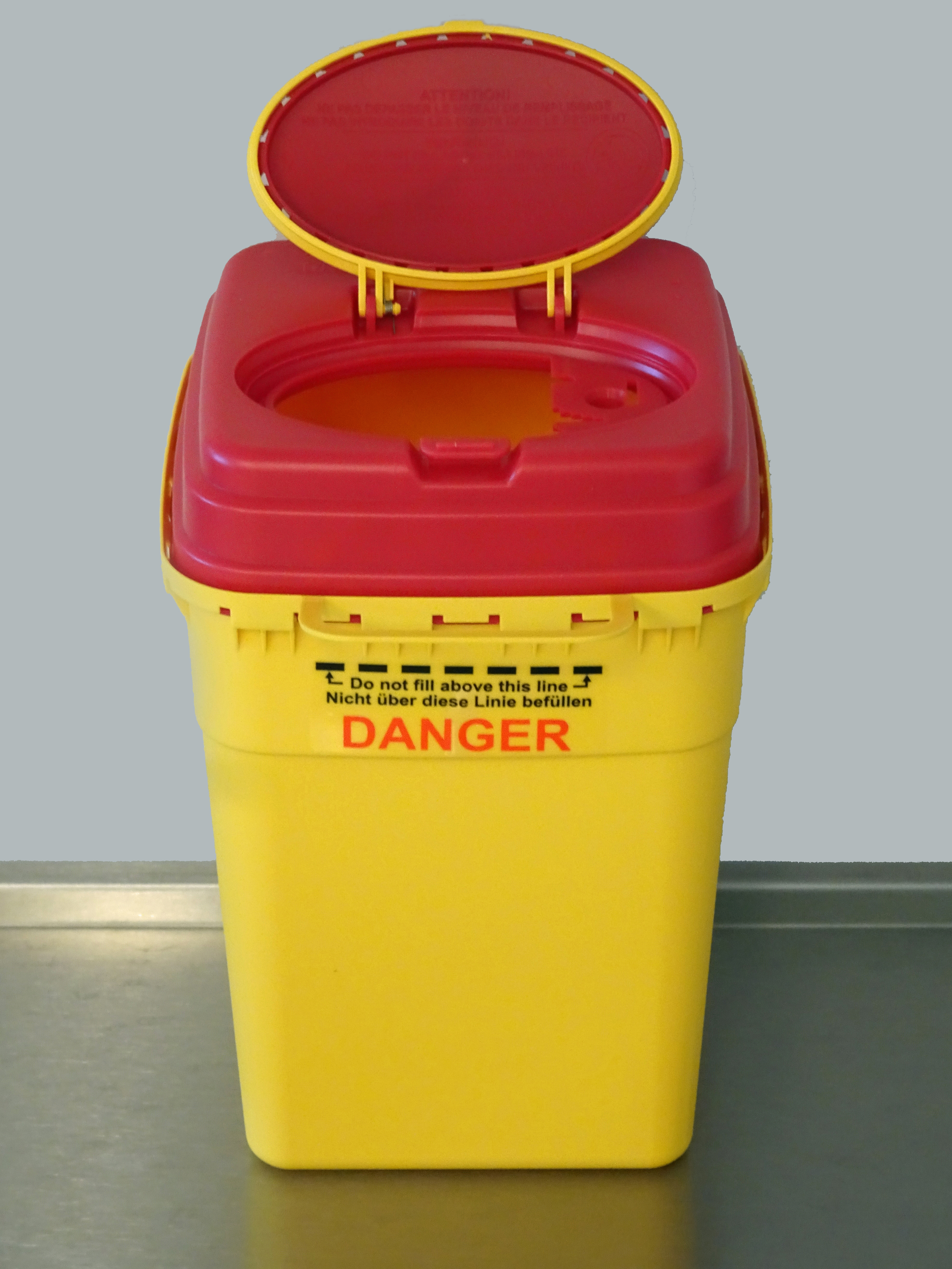 Container for medical sharp instruments, opened ampoules and infectious waste to prevent injuries and infections. Once closed, it cannot be reopened by manual force. Height: 23 cm.